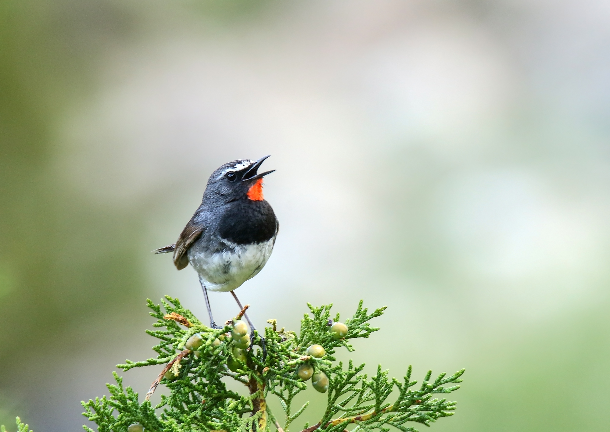 White-tailed Rubythroat (Luscinia pectoralis) captured at Shispare Ther, Hunza, Gilgit-Baltistan, Pakistan with Canon EOS 7D Mark II